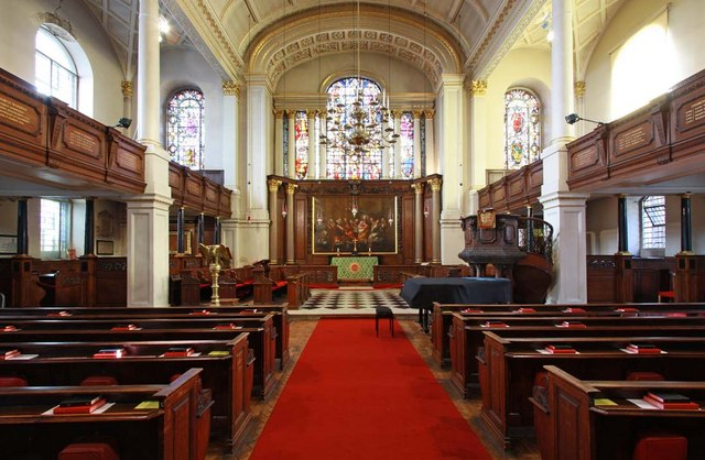 St George's Church, Hanover Square, London W1 - East end